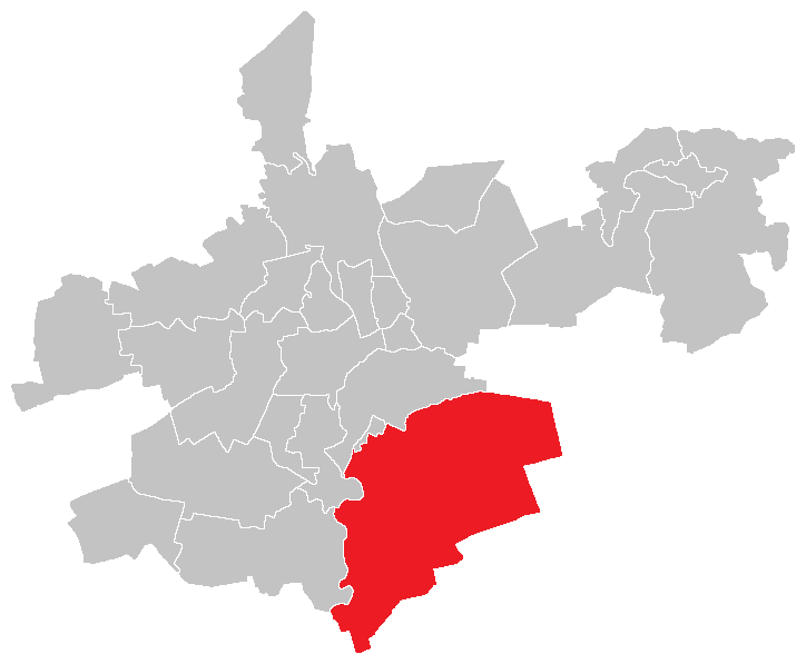 Location map of Olomouc district Holice